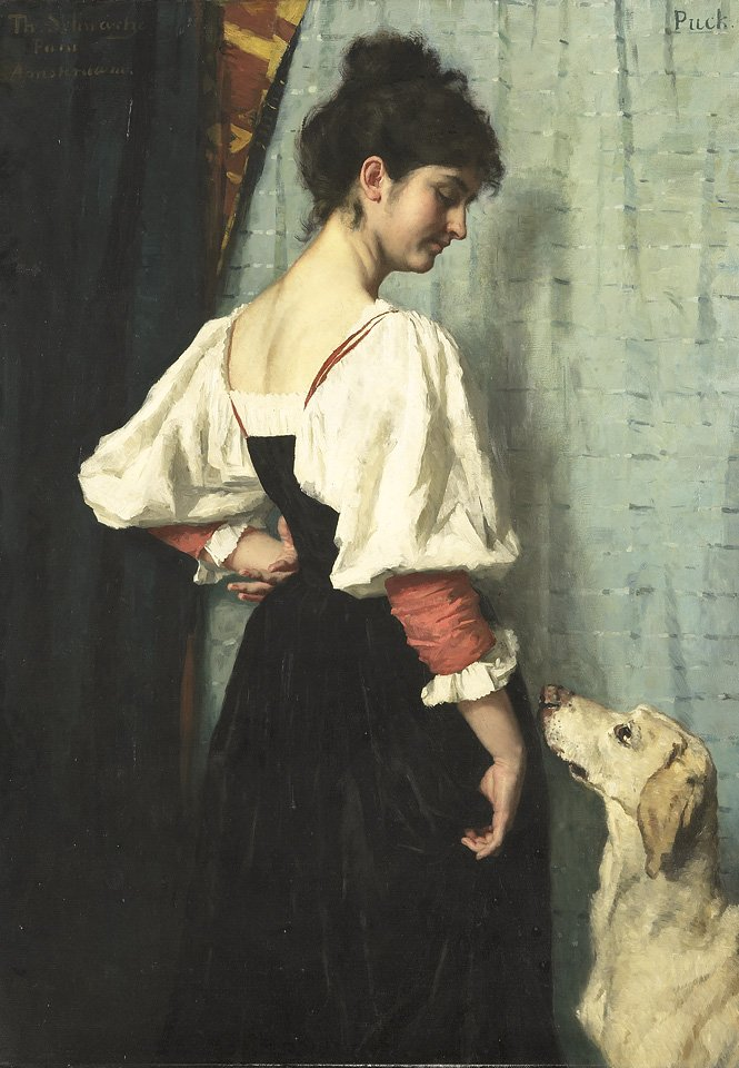 Young Italian woman with a dog called Puck. oil on canvas. 144 cm x 103 cm